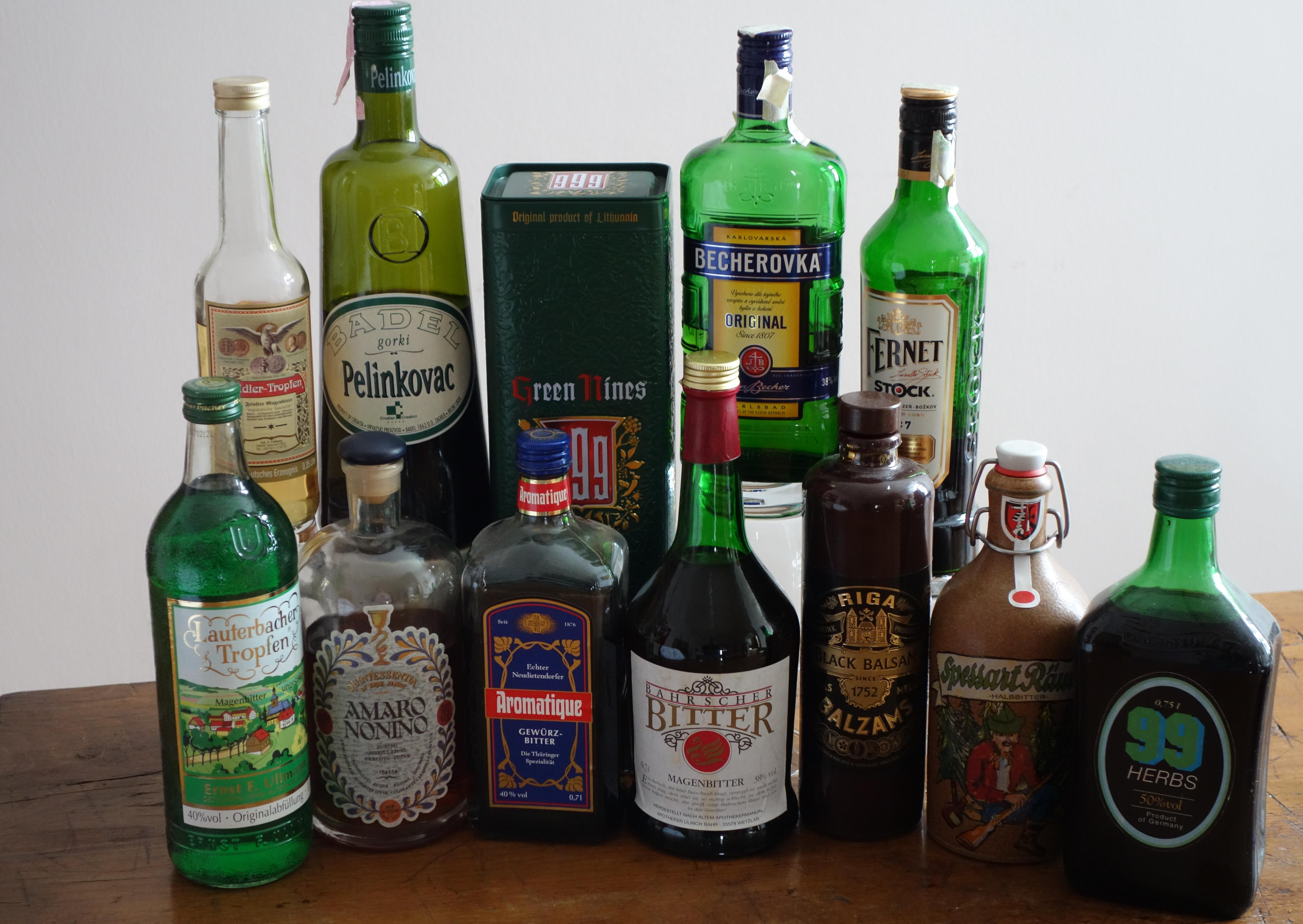 Picture showing bottles with bitters originating from various countries